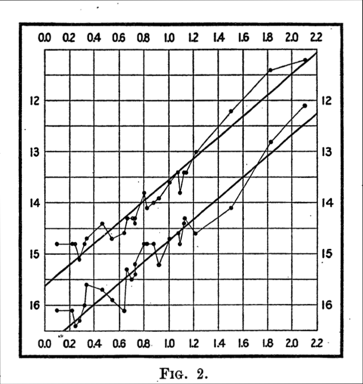 Figure 2, "Periods of 25 Variable Stars in the Small Magellanic Cloud" Harvard College Observatory Circular, vol. 173